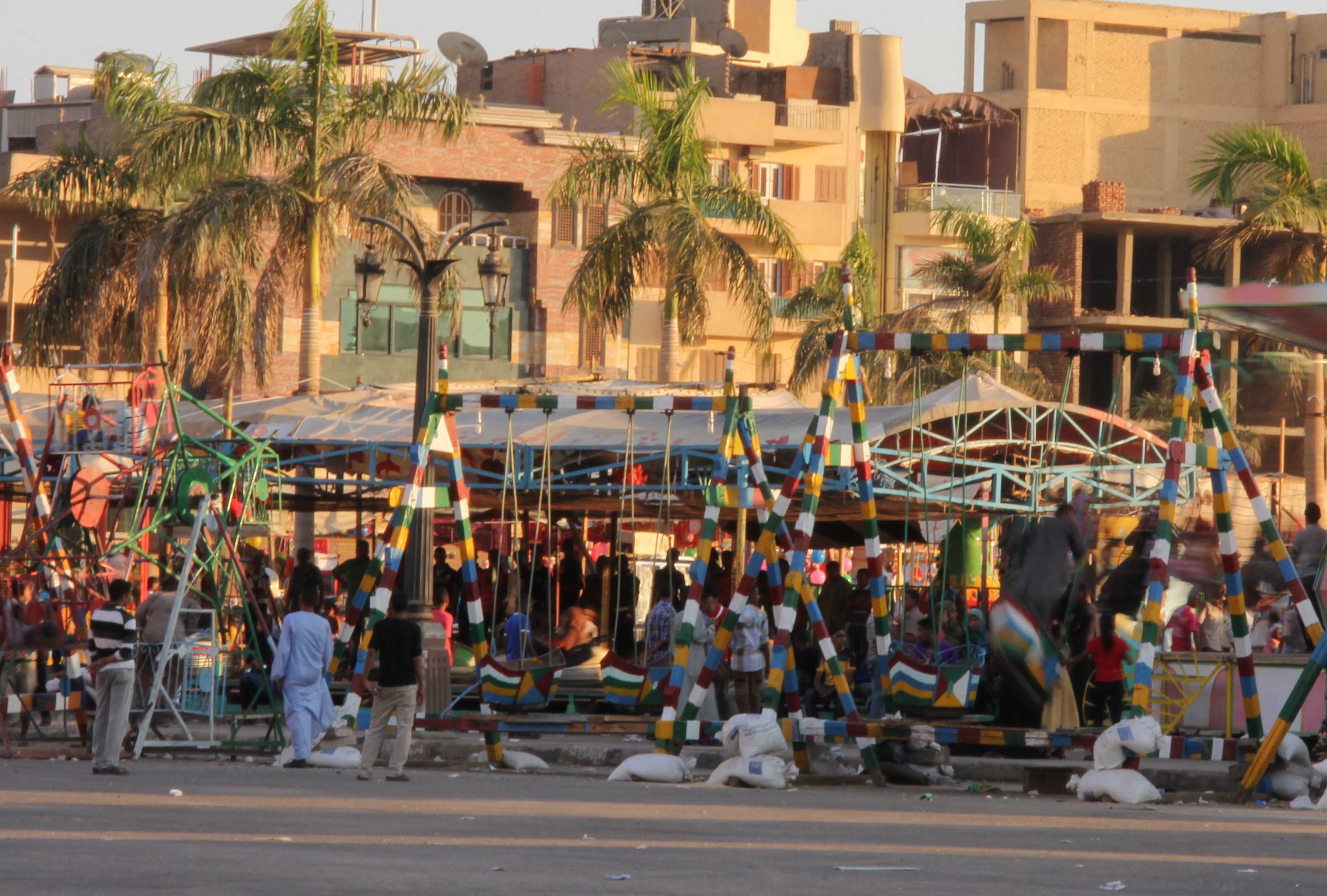 Eid Park Celebration Luxor